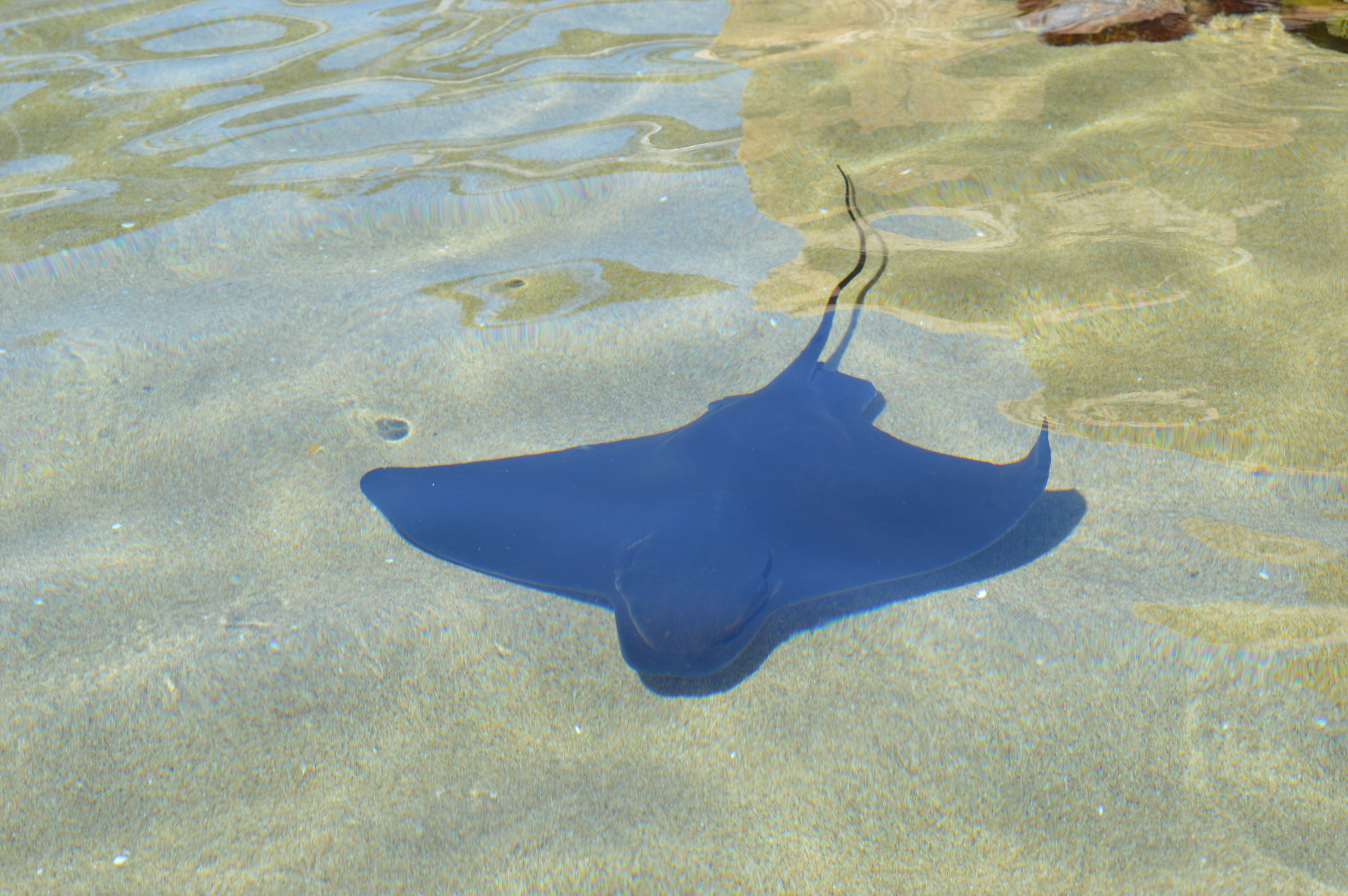 A Bat ray (Myliobatis californica) at the Aquarium of the Pacific in Long Beach, California, U.S.A. * See [1] at the aquarium's website for details.